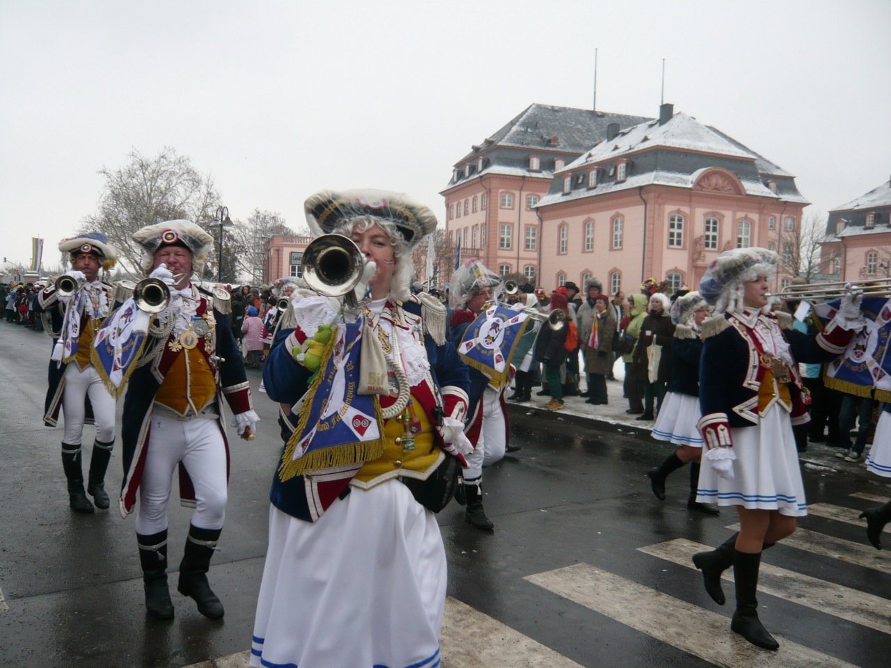 Spielmanns- und Fanfarenzug der Mainzer Ranzengarde